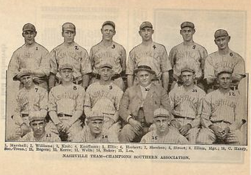 The 1916 Nashville Volunteers. They were the Southern Association champions this season. Former MLB player Gus Williams is labled as "2".